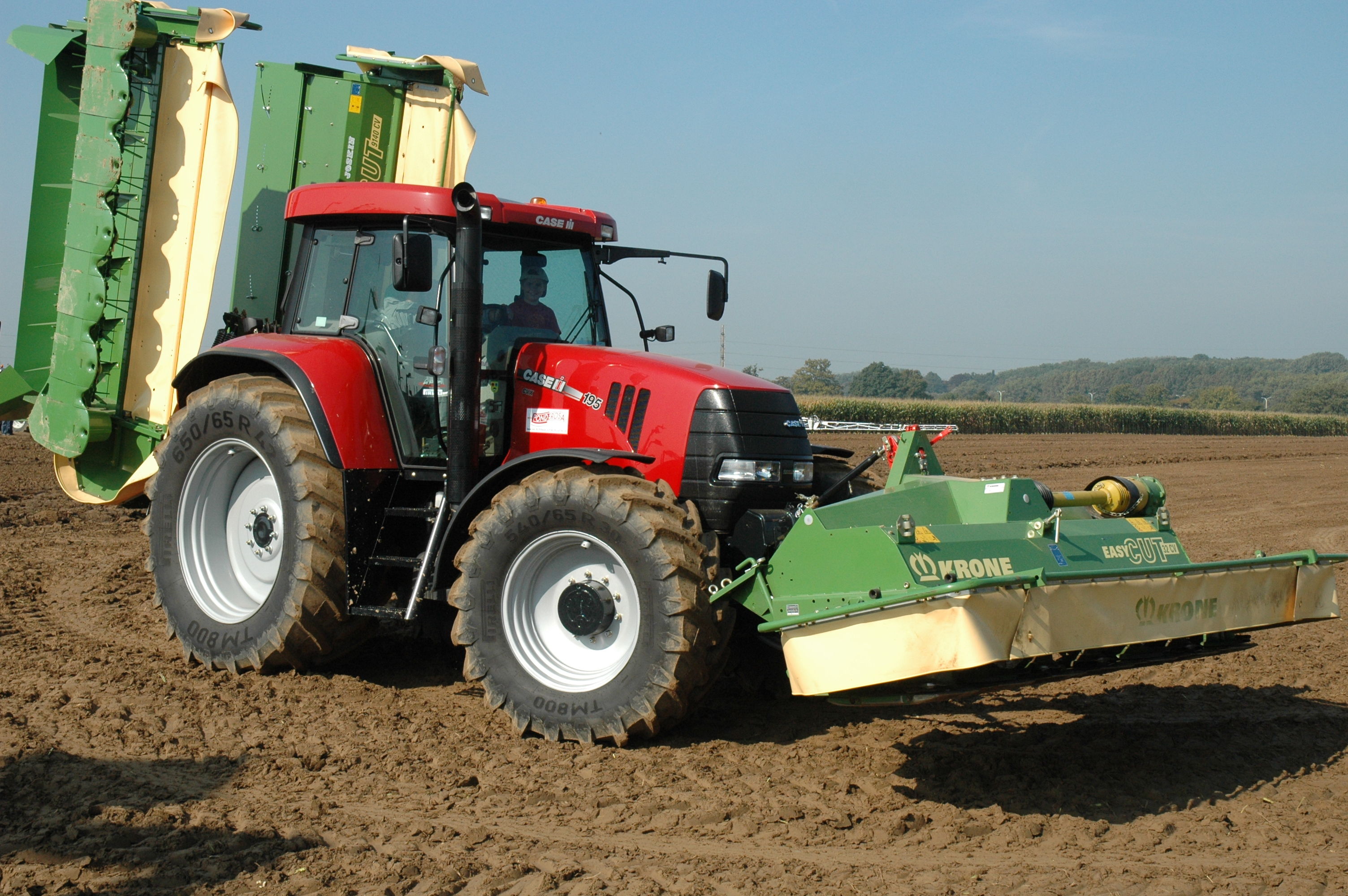 Case tractor with a Krone EasyCut mower